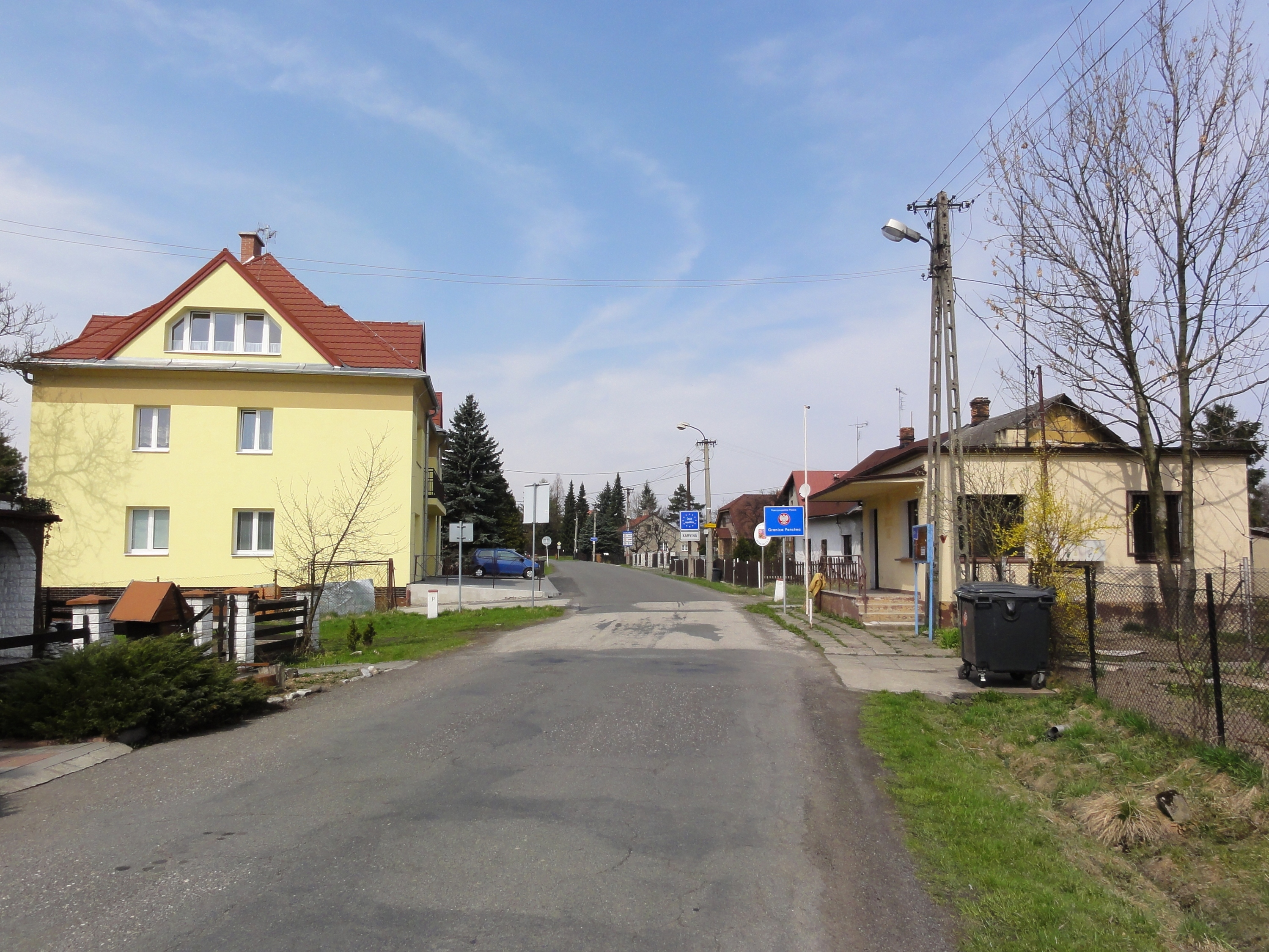 Former border crossing between Kaczyce Górne (Poland) and Karviná-Ráj (Czech Republic). Boundary stone 111/1 is located on the right side of the road.